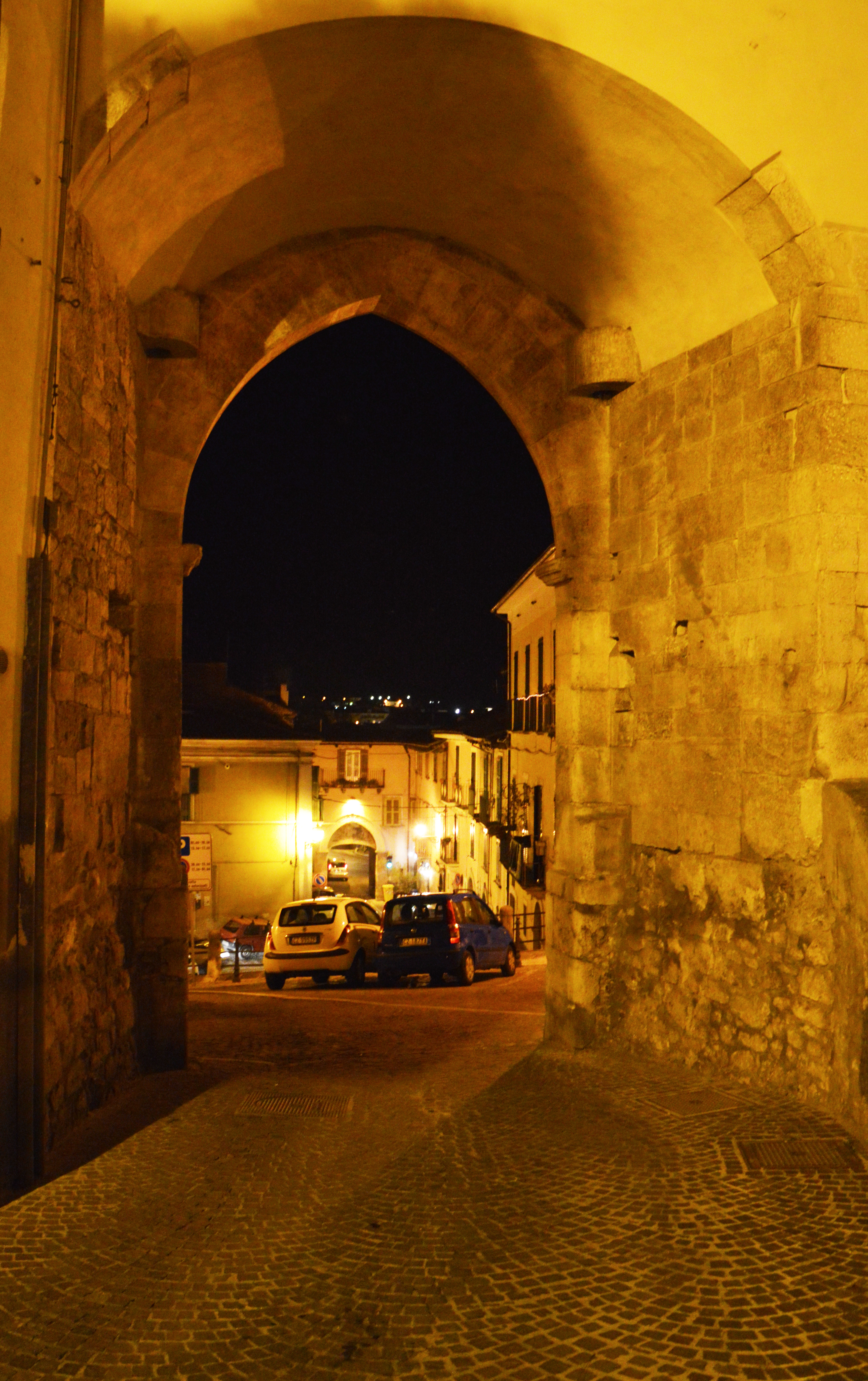 city walls